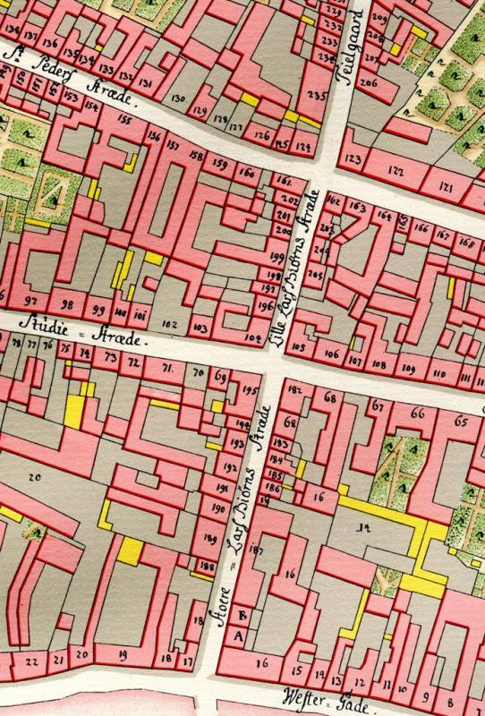 Larsbjørnsstræde seen on a detail from Christian Gedde's map of the Nørre Quarter in Copenhagen, Denmark